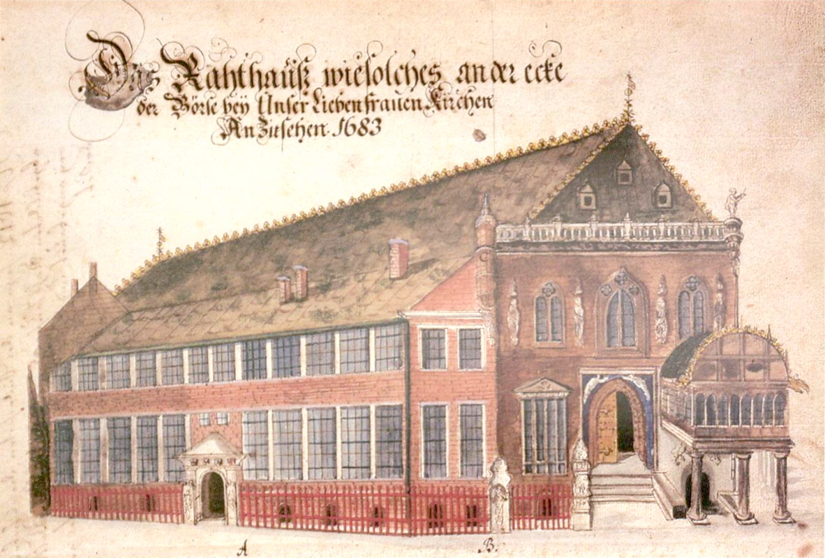 Northern corner of the Town hall of Bremen in 1683, short after the completion of the office extension in front and left